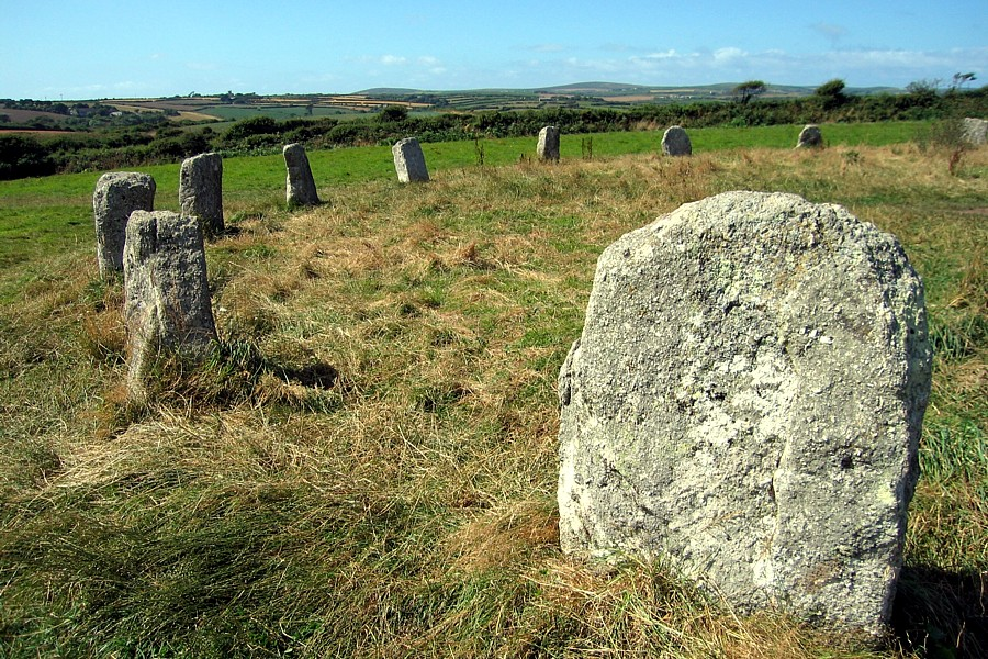 Merry Maidens - stone circle - Cornwall - UK